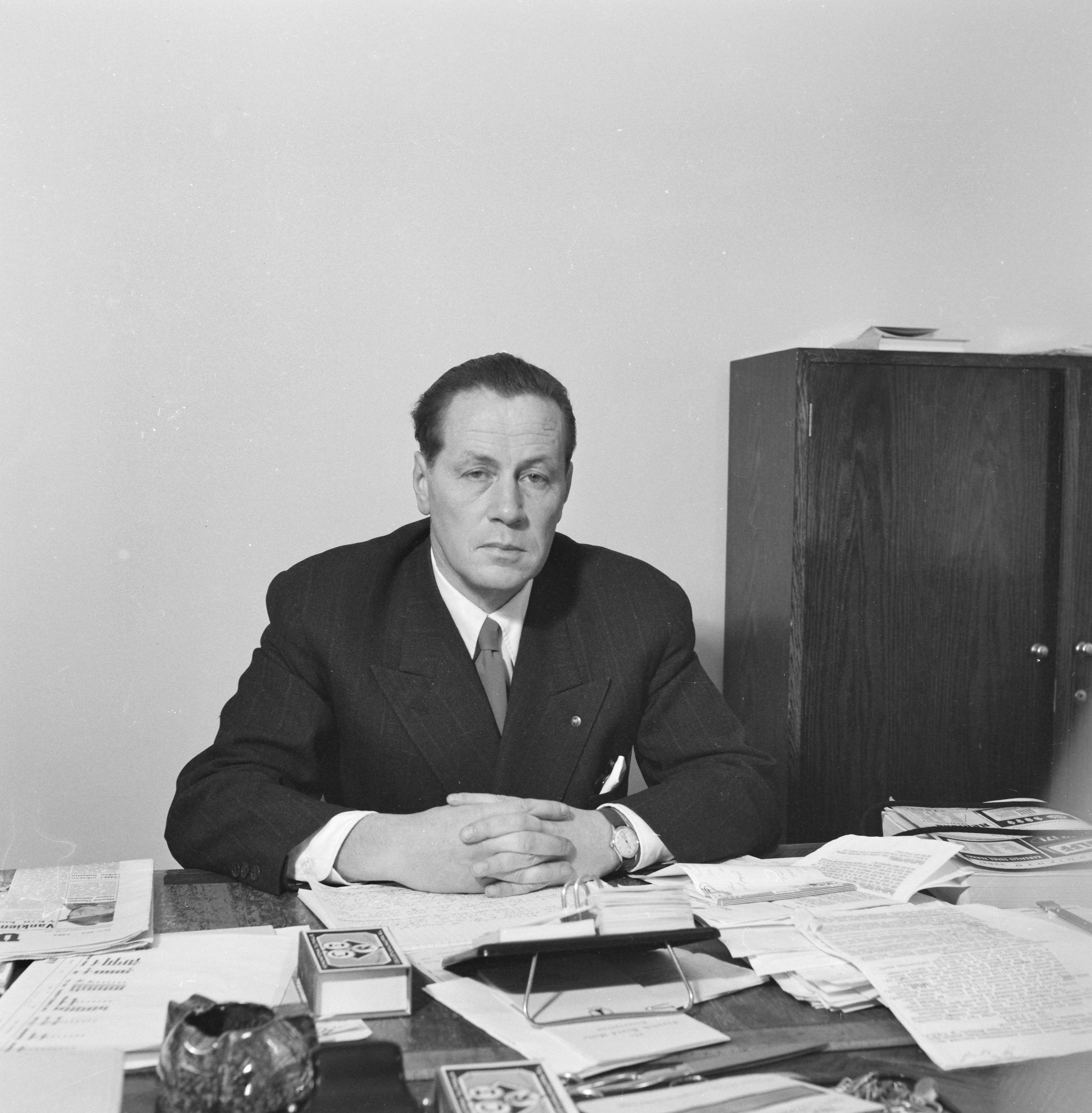 Manne Nurmia, director of Alko from 1969 to 1971, pictured in the early 1950s